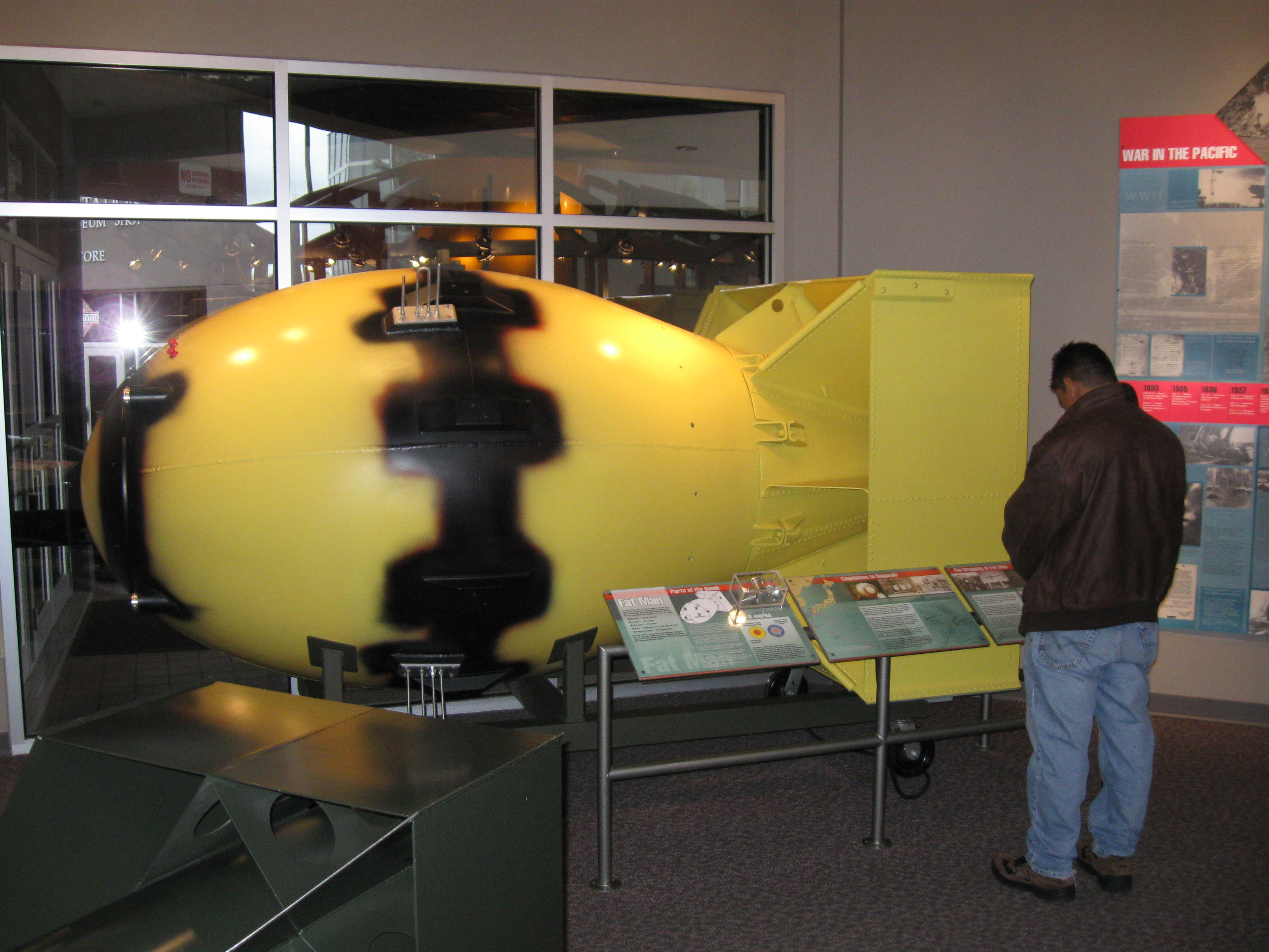 Picture of Fat Man bomb model at Bradbury National Science Museum, Los Alamos, NM, USA